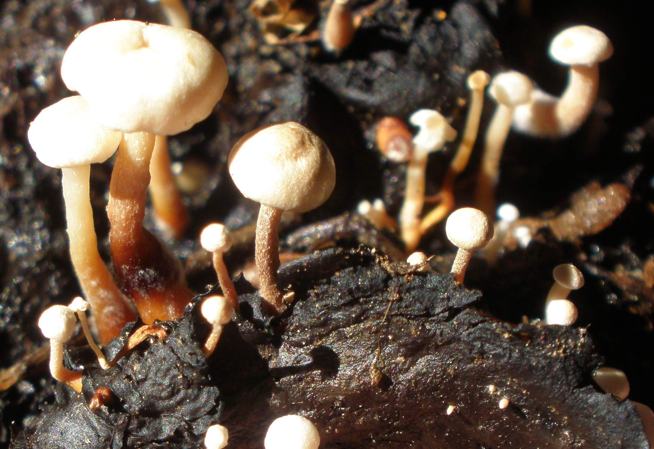 The fungus Collybia tuberosa (Bull.) P. Kumm. Specimen photographed in Tahoe National Forest, CA. "Notes: Growing on a dead mushroom, possibly a Russula."